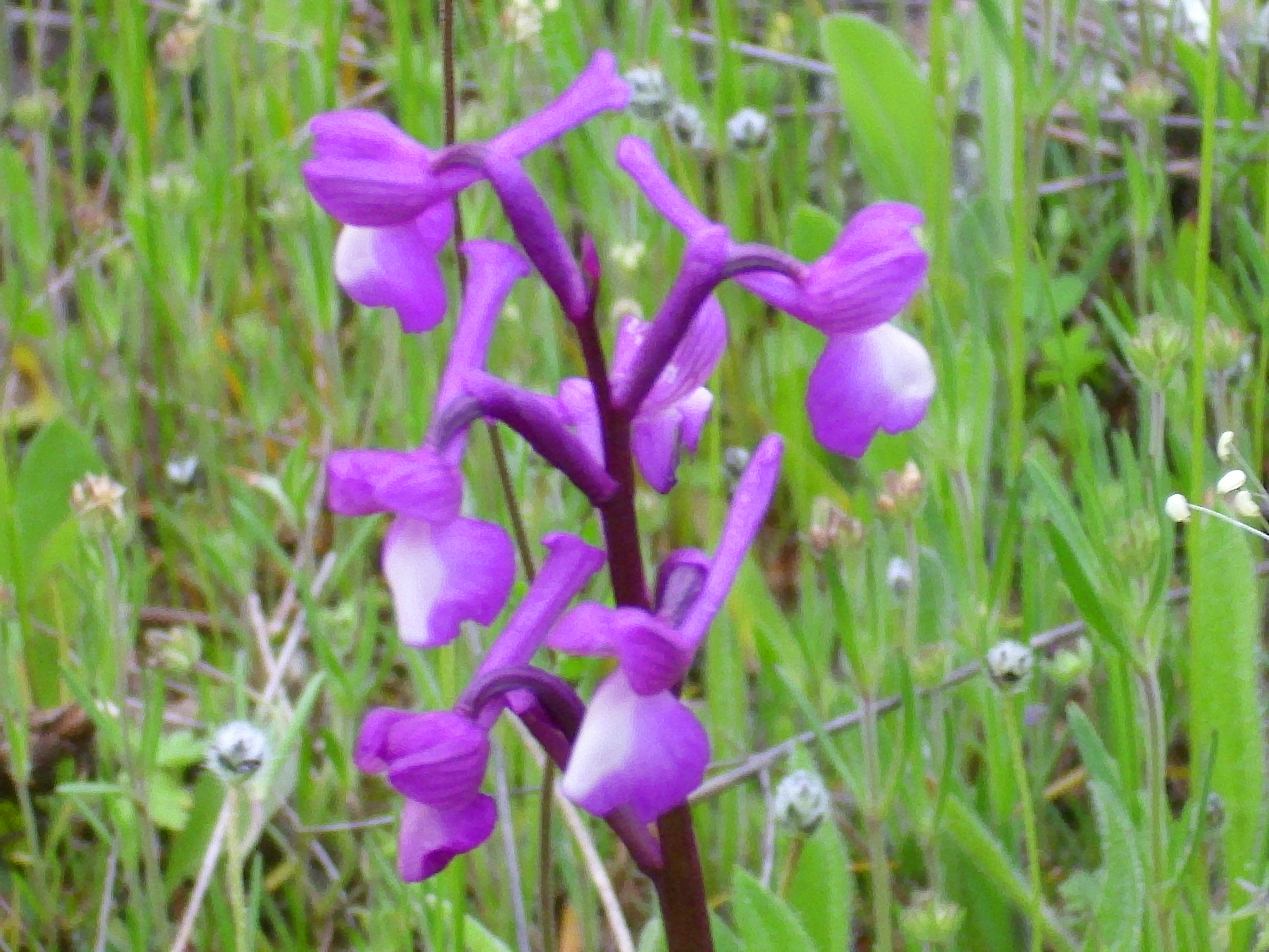 Orchis champagneuxii habit, Cañada de Calatrava, Campo de Calatrava, Spain